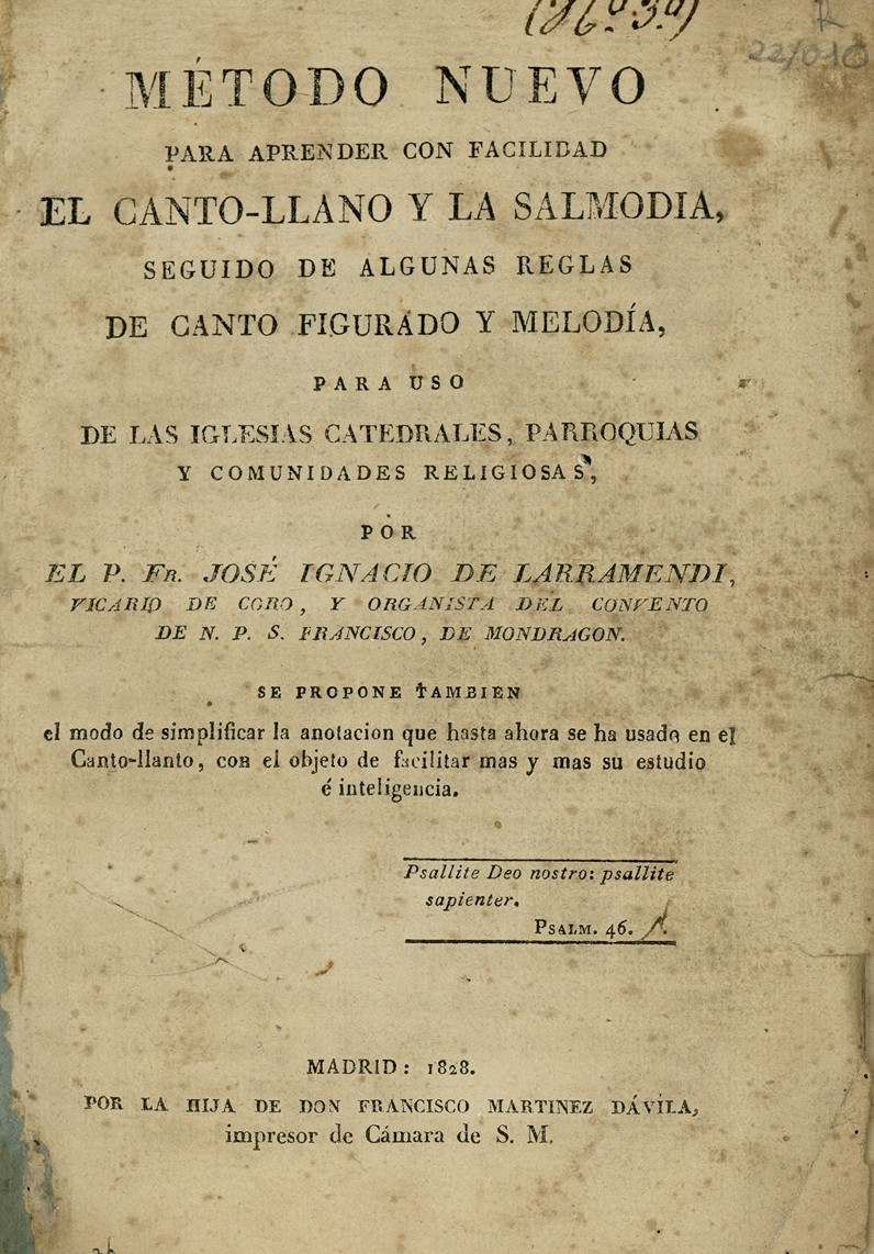 Metodo de Canto llano. Jose Ignacio Larramendi